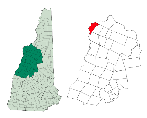 Map of a municipality in Belknap County, New Hampshire